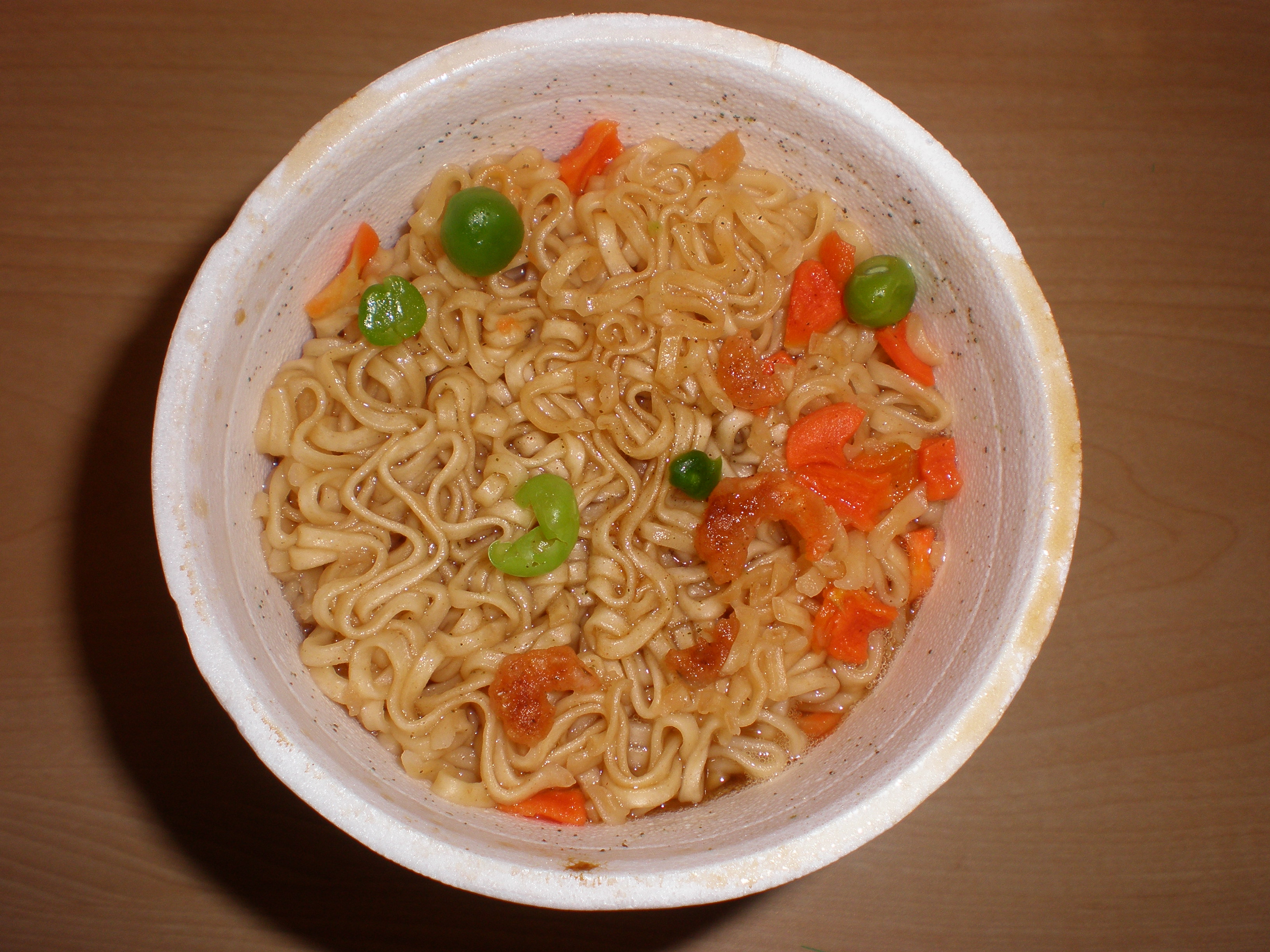 Cooked Nissin Cup Noodles shrimp flavor